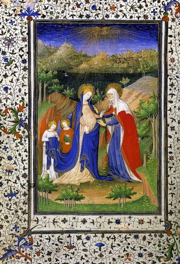 Boucicaut Master Book of Hours, f. 65, depicting the Visitation